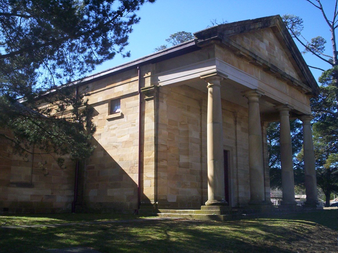 Berrima Courthouse, 19th Century building in the historic settlement of Berrima, New South Wales, Australia Cfitzart 02:35, 22 August 2005 (UTC) I took the photo